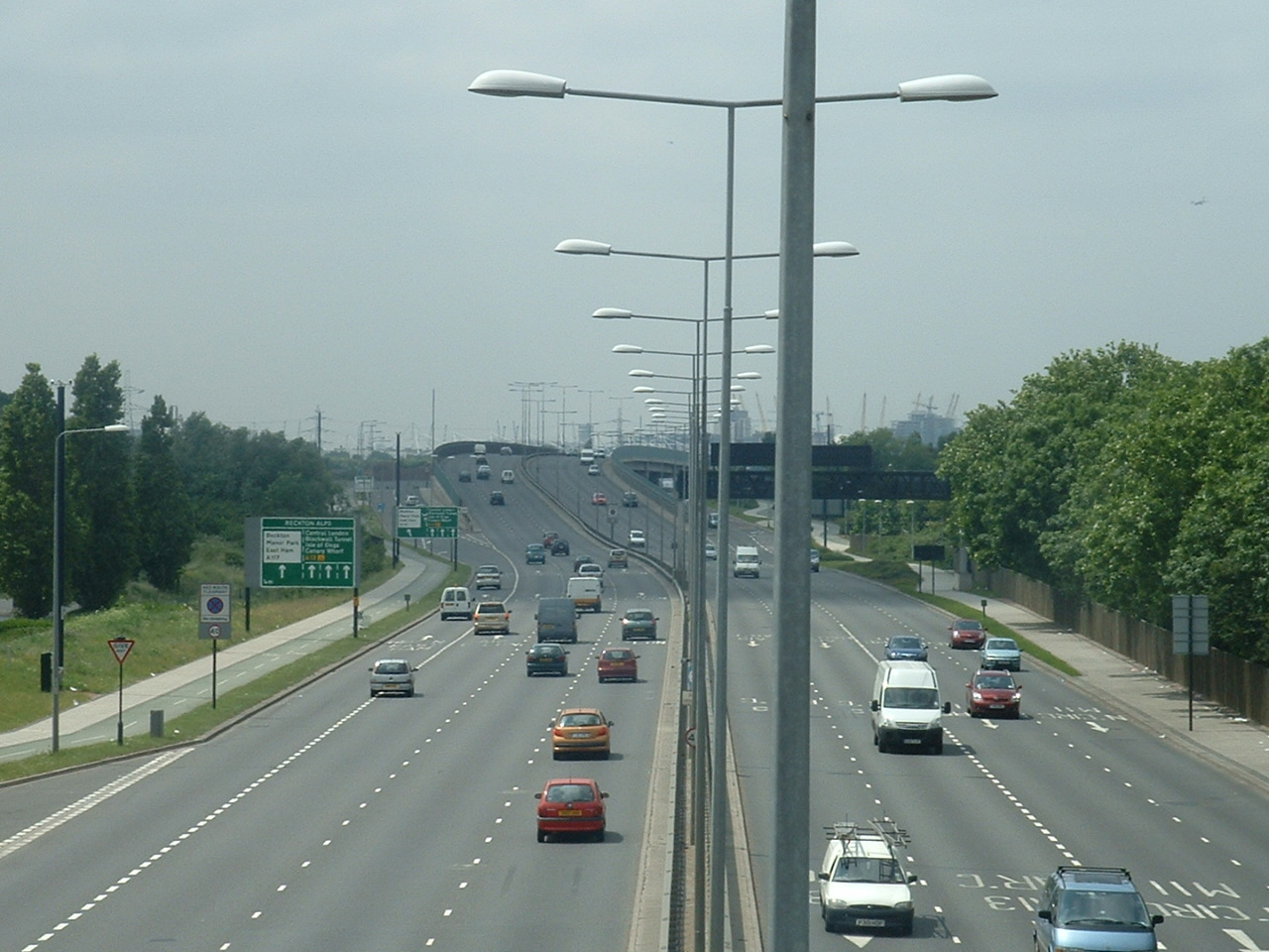 A13 Newham Way looking west from Goosely Lane footbridge, just west of the A406, with Beckton Alps flyover (A117 junction) in the distance.